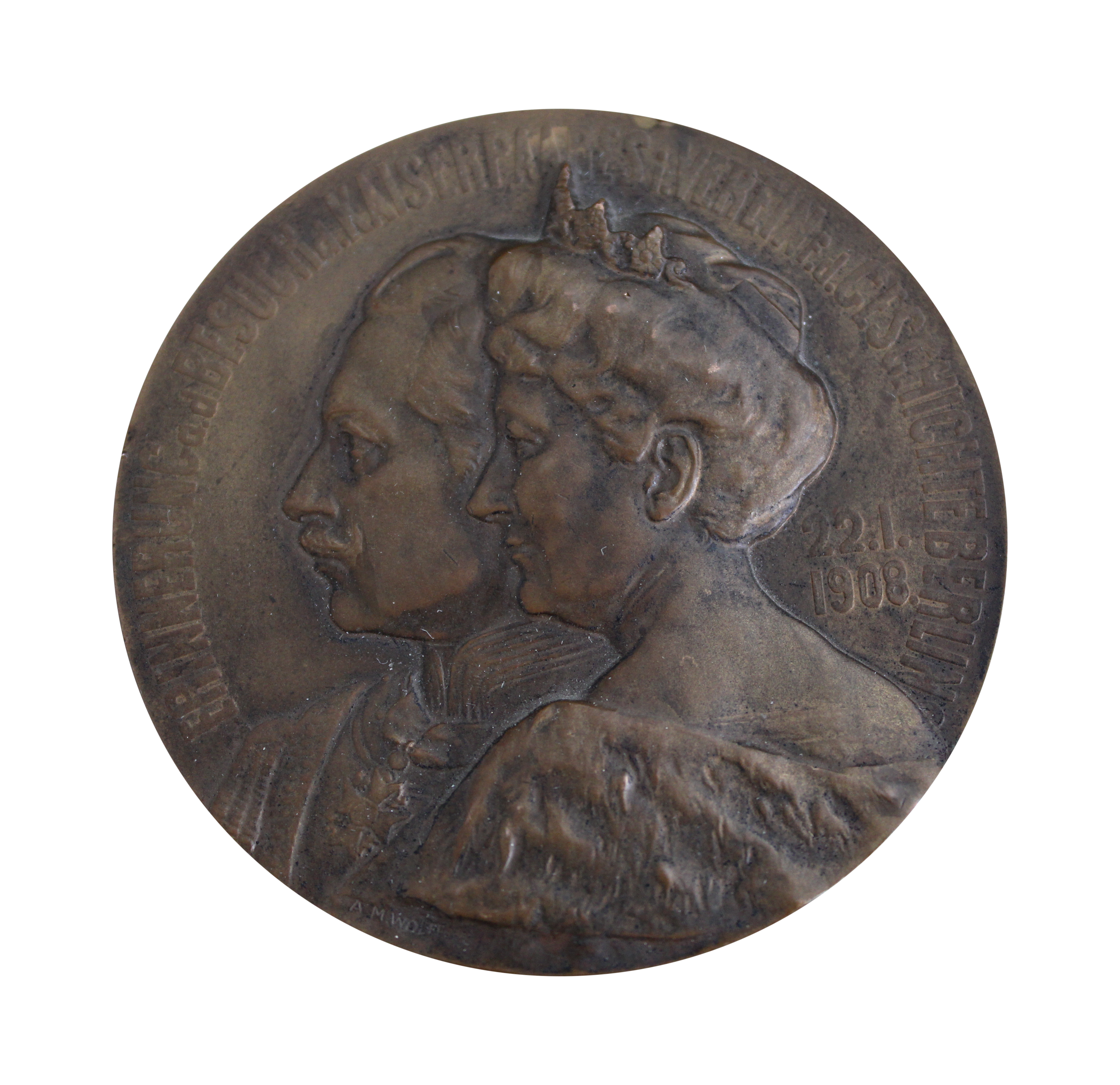 This coin was made from the Verein für die Geschichte Berlins in order to commemorate a visit of emperor Wilhelm II, and his wife.